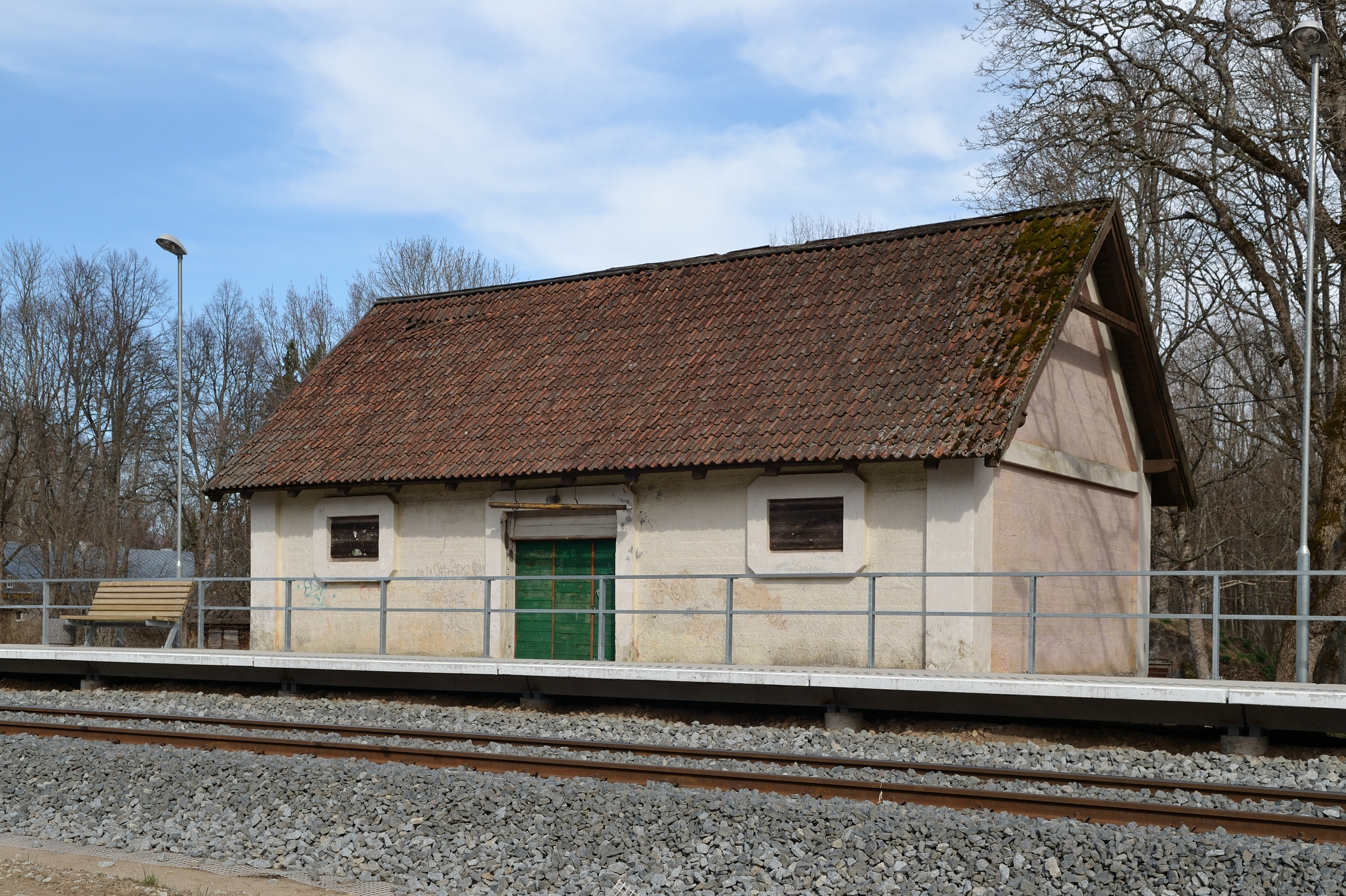 Olustevere station ancillary building